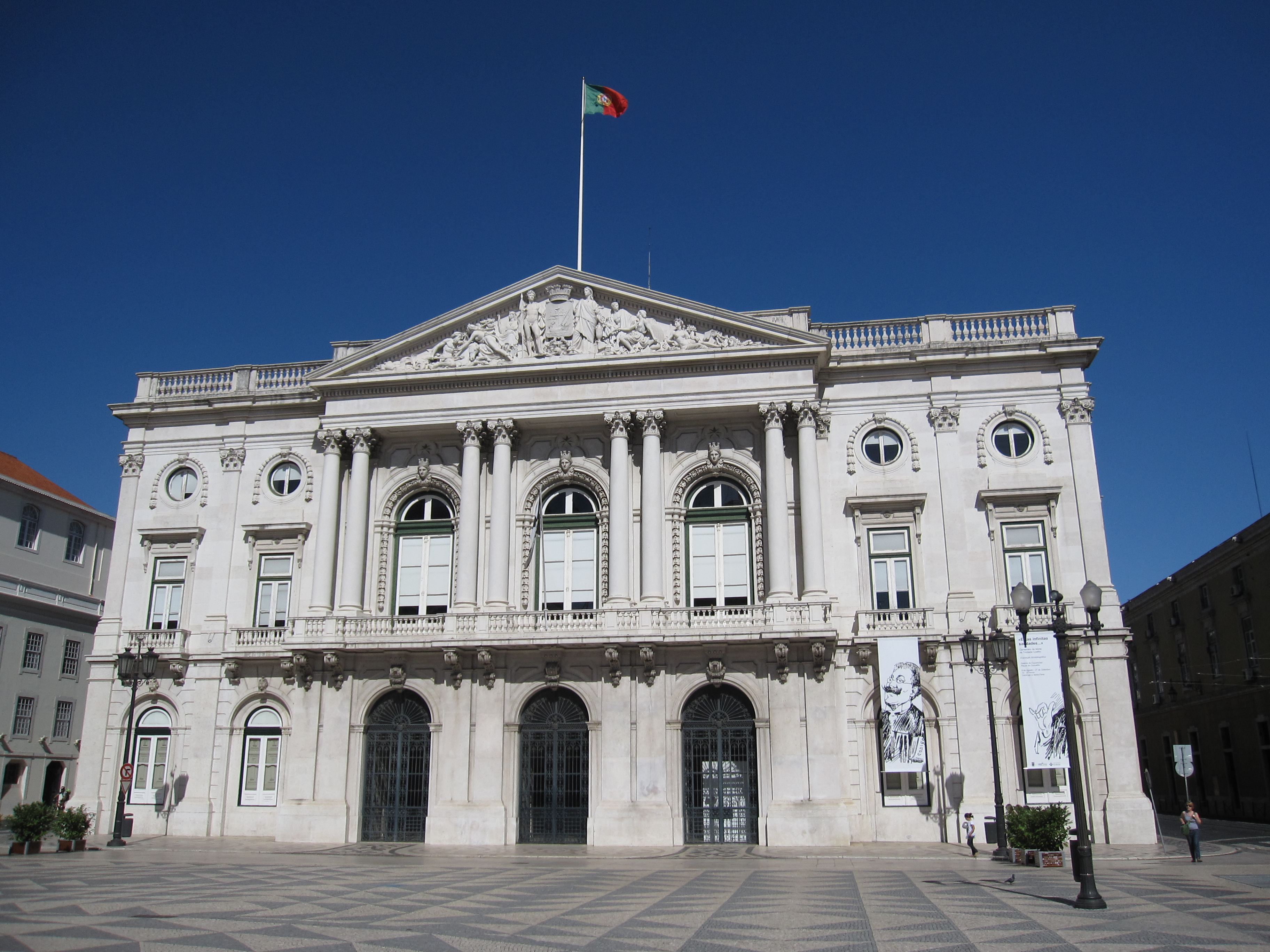 The Lisbon City Hall located on the Praça do Município square. The City Hall building is a neoclassical palace with an elegant exterior featuring sculptures on the triangular tympanum supported by four paired columns. The interior, which can only be visited on free guided tours on Sunday mornings, is rich in works of art, including a painting showing Marquês de Pombal during the times of the reconstruction of Lisbon.